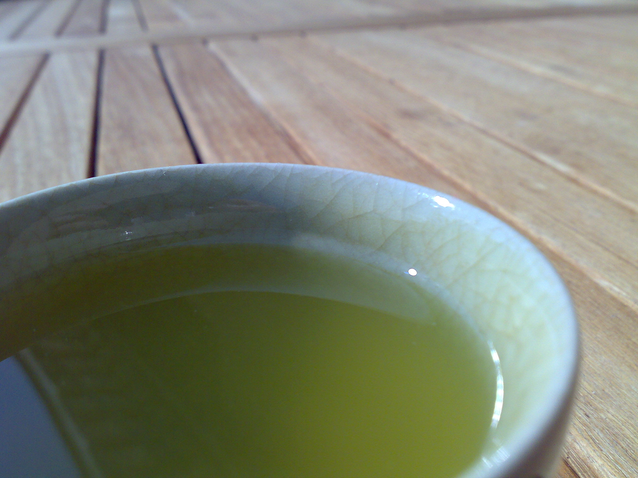 a cup of sencha